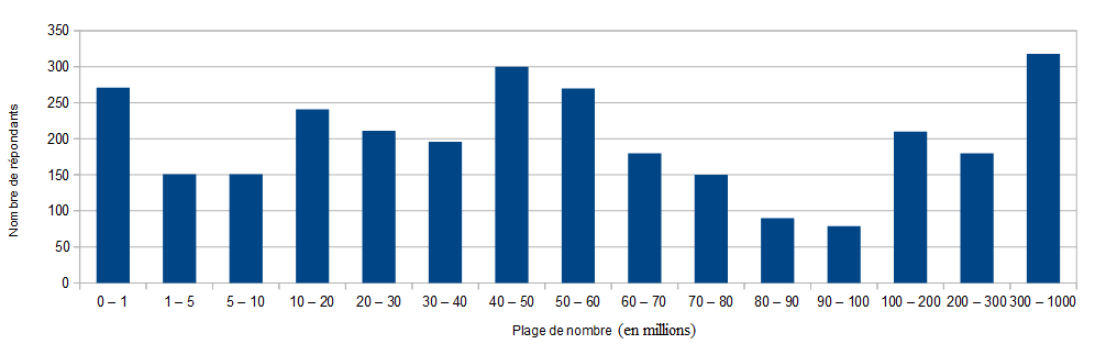 Distribution of the answers to the Jeux et Stratégie 83 tie breaker. Based on the data provided in the n°24.